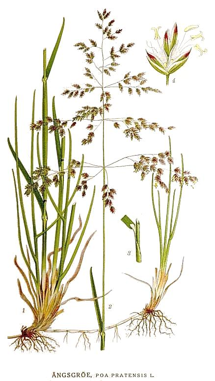 Poa pratensis L. s. str.